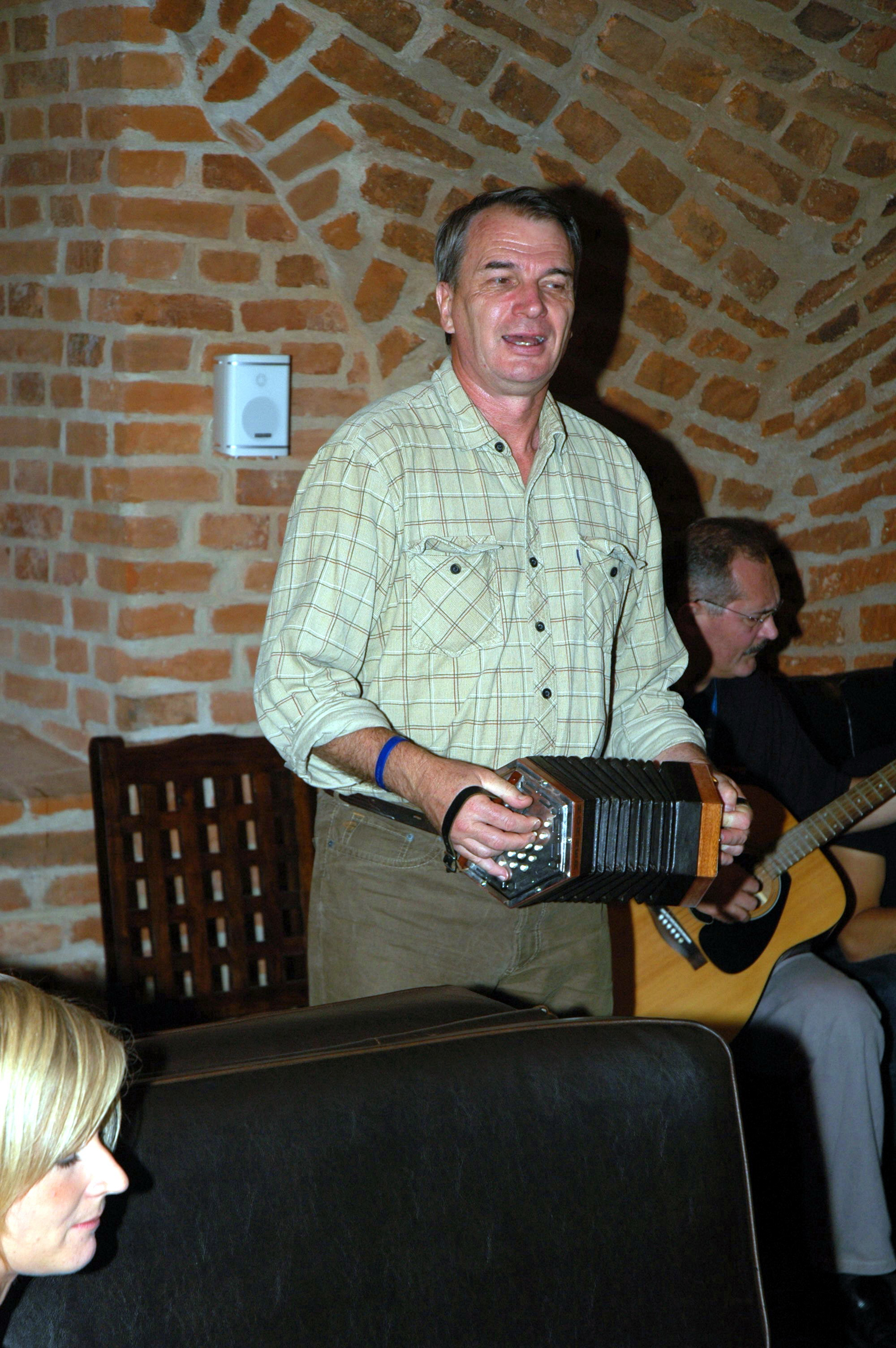 Marek Szurawski, Polish shantyman and writer plays concertina